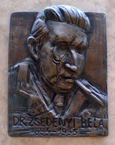 Béla Zsedényi. University of Miskolc, Hungary